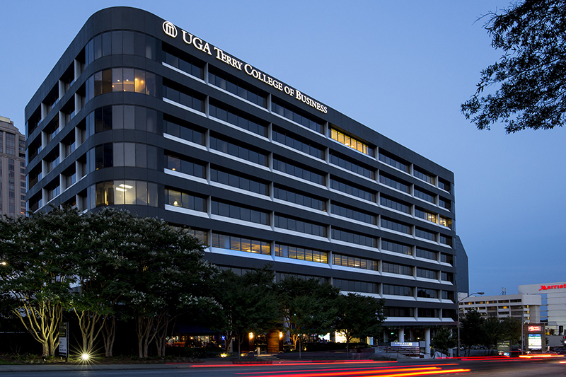 Terry College of Business's Terry Executive Education Center in Atlanta, GA